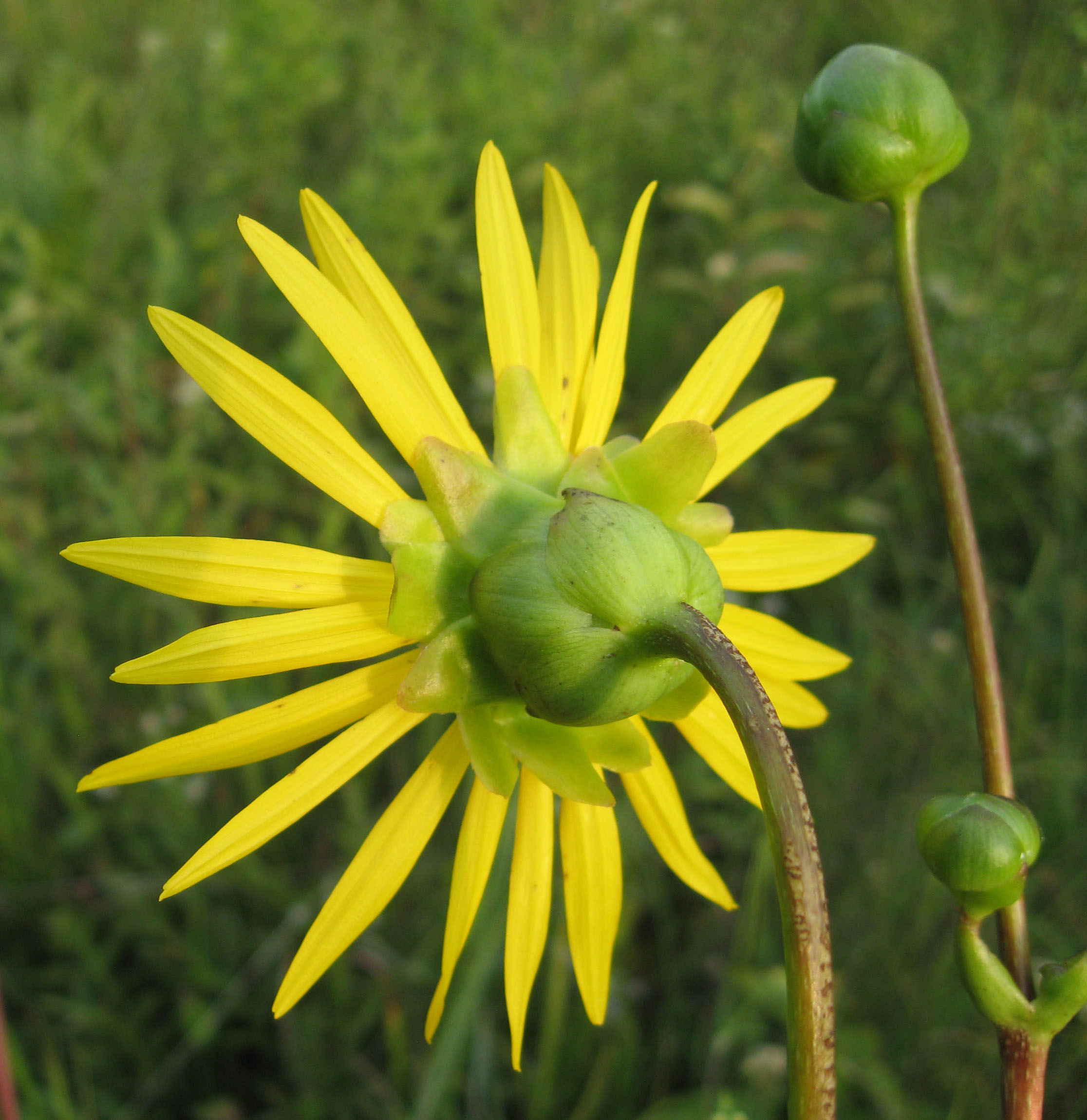 Silphium pinnatifidum, May Prairie, a wet prairie in Coffee County, Tennessee